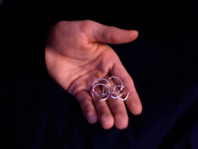 This is a puzzle ring. Each of the six bands can be combined into a single ring.